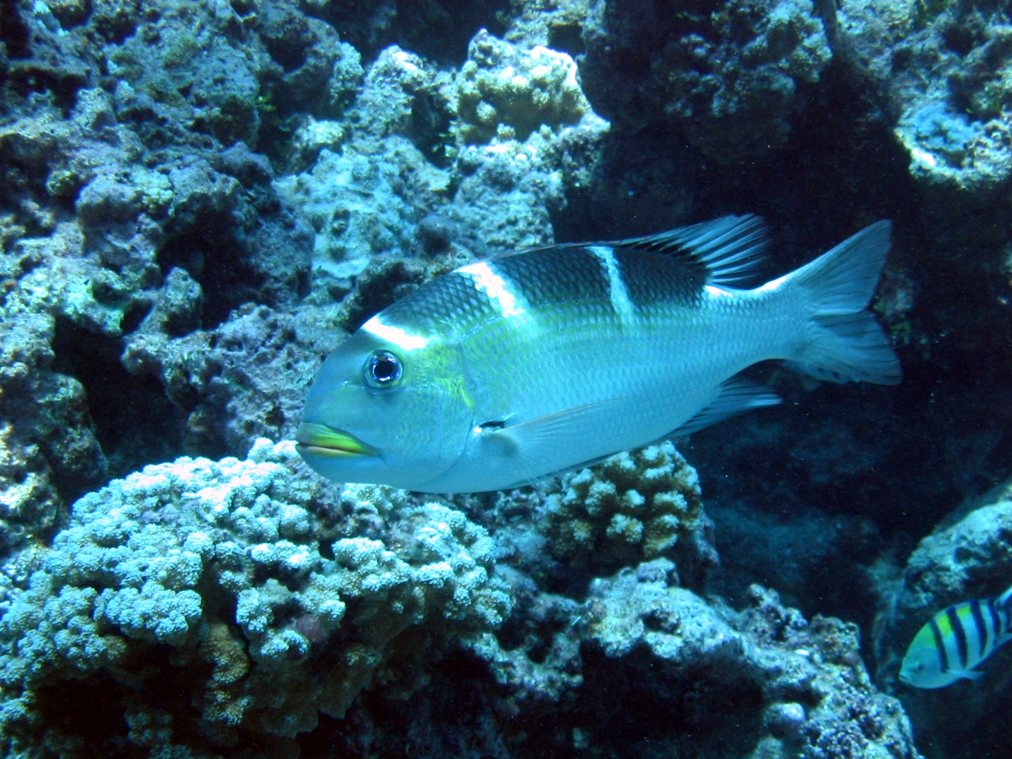 Bigeye emperor (Monotaxis grandoculis) Image ID: reef0748, NOAA's Coral Kingdom Collection Location: Northwest Hawaiian Islands